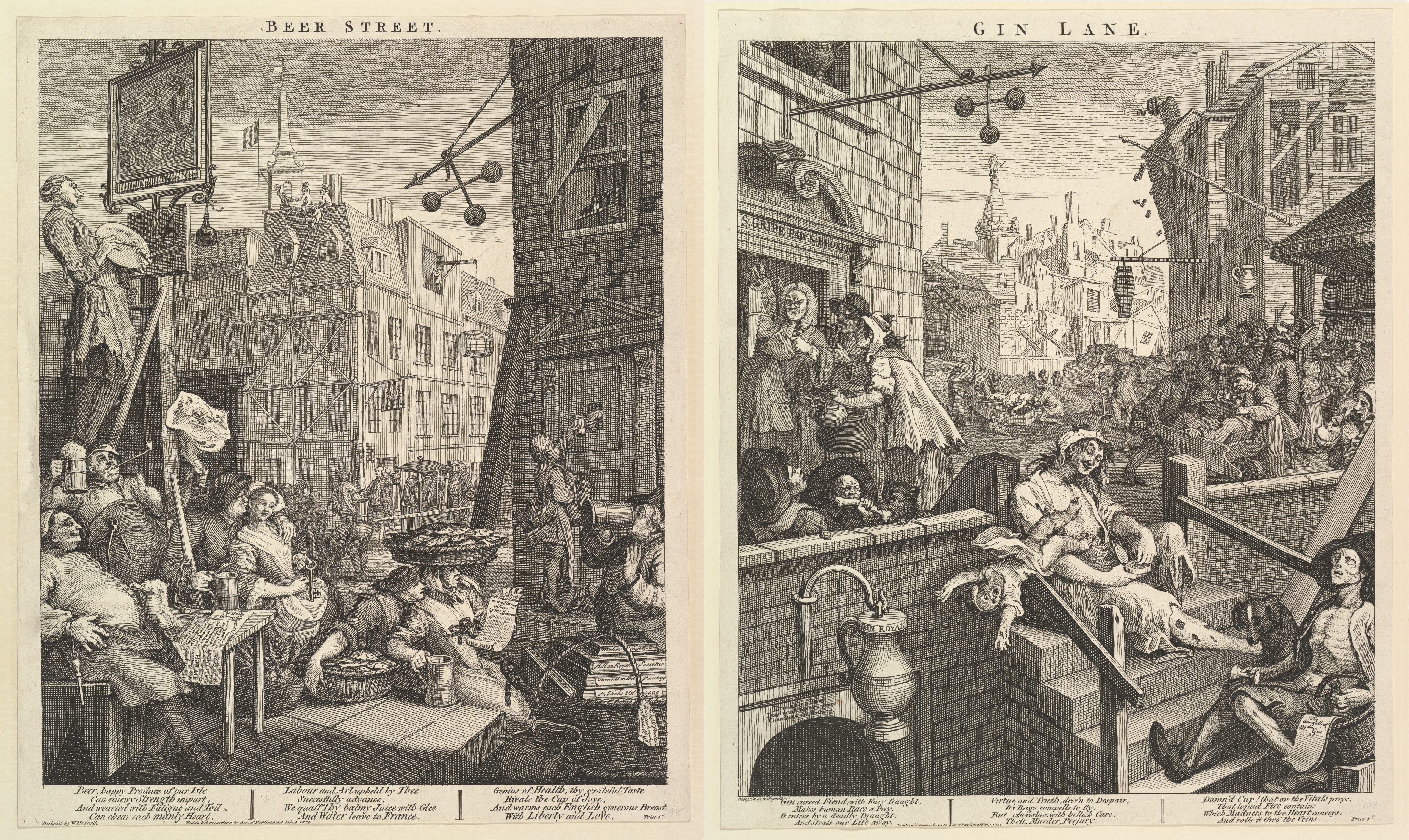 Combined image of Beer Street and Gin Lane